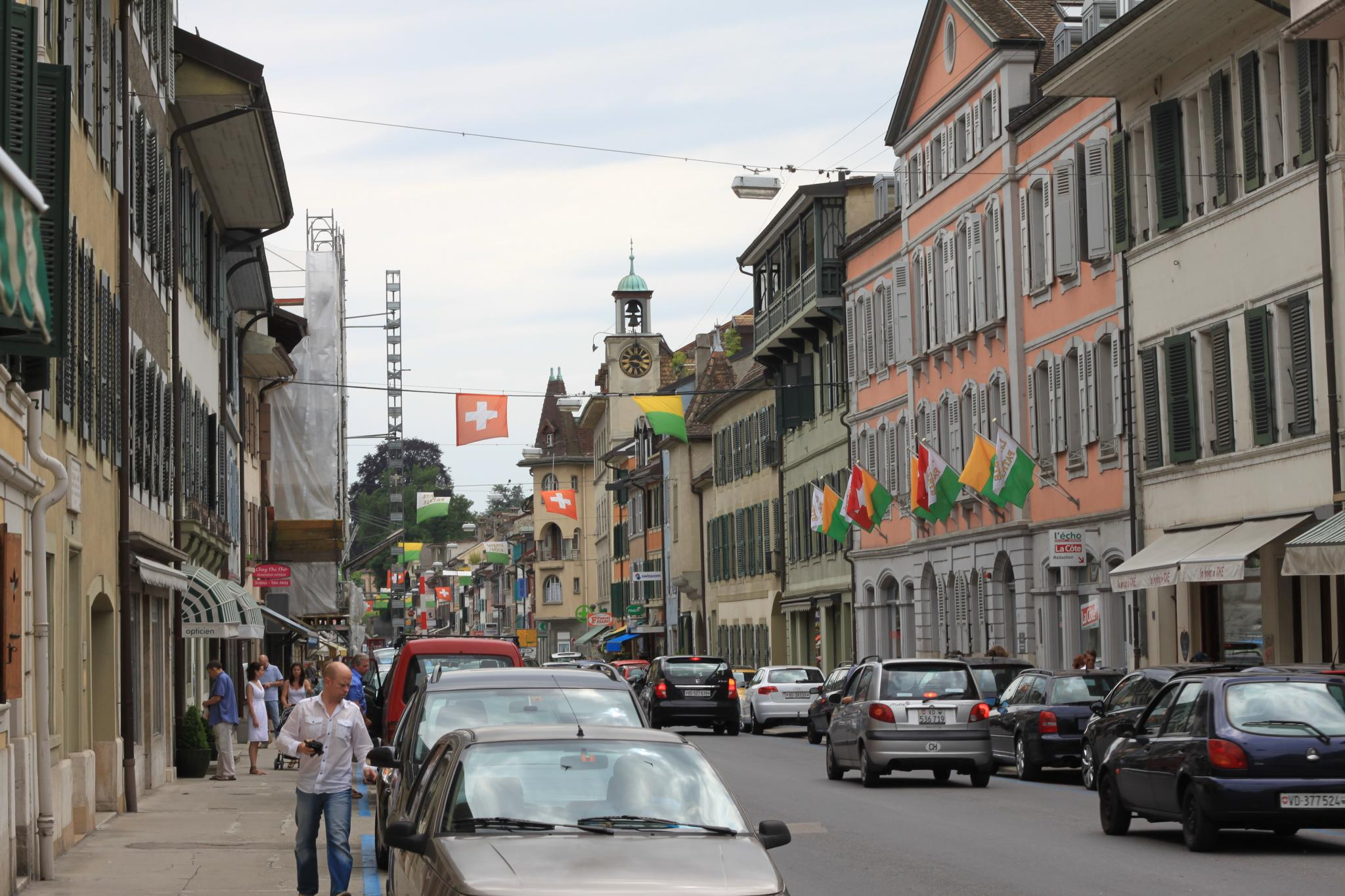 Rolle, Vaud, Switzerland